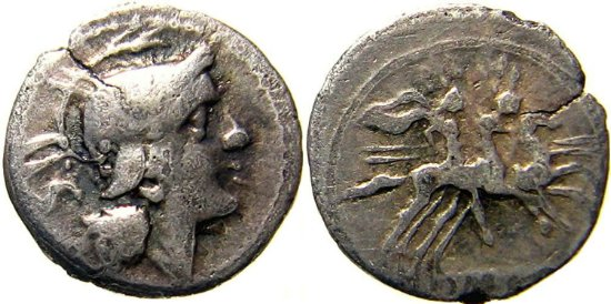 Roman Republic. Anonymous. After 211 BC. AR Sestertius (0.96 g). Helmeted head of Roma right Dioscuri right; dotted stars above. RSC 4; Crawford 44/7.